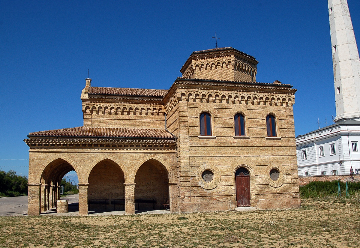 Vasto